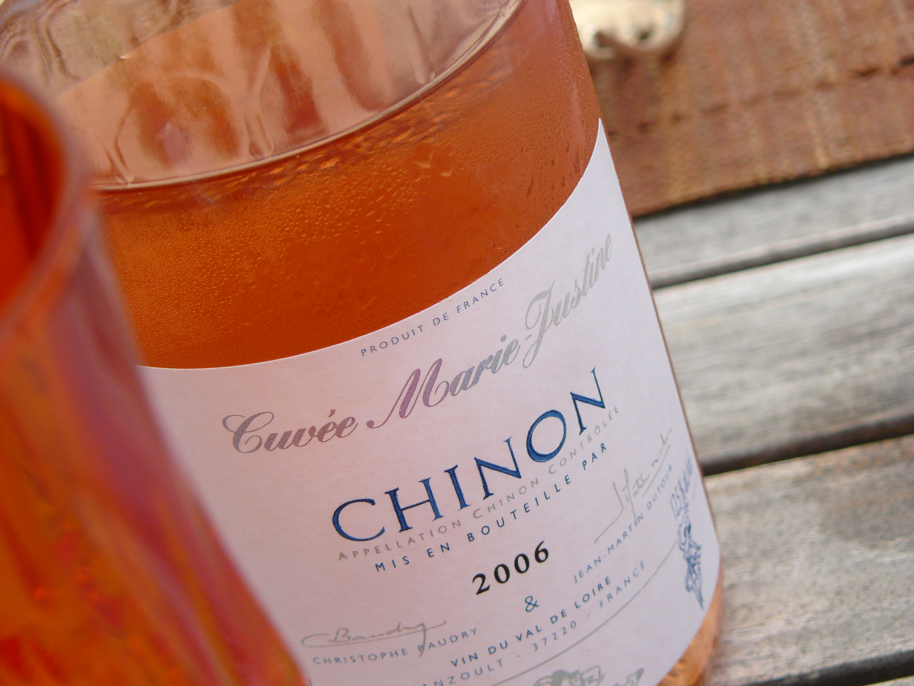 A rose Chinon wine made from Cabernet franc in the French wine region of Touraine in the Loire Valley.